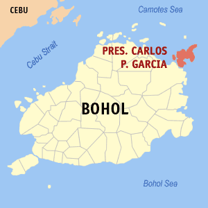 Map of Bohol showing the location of President Carlos P. Garcia